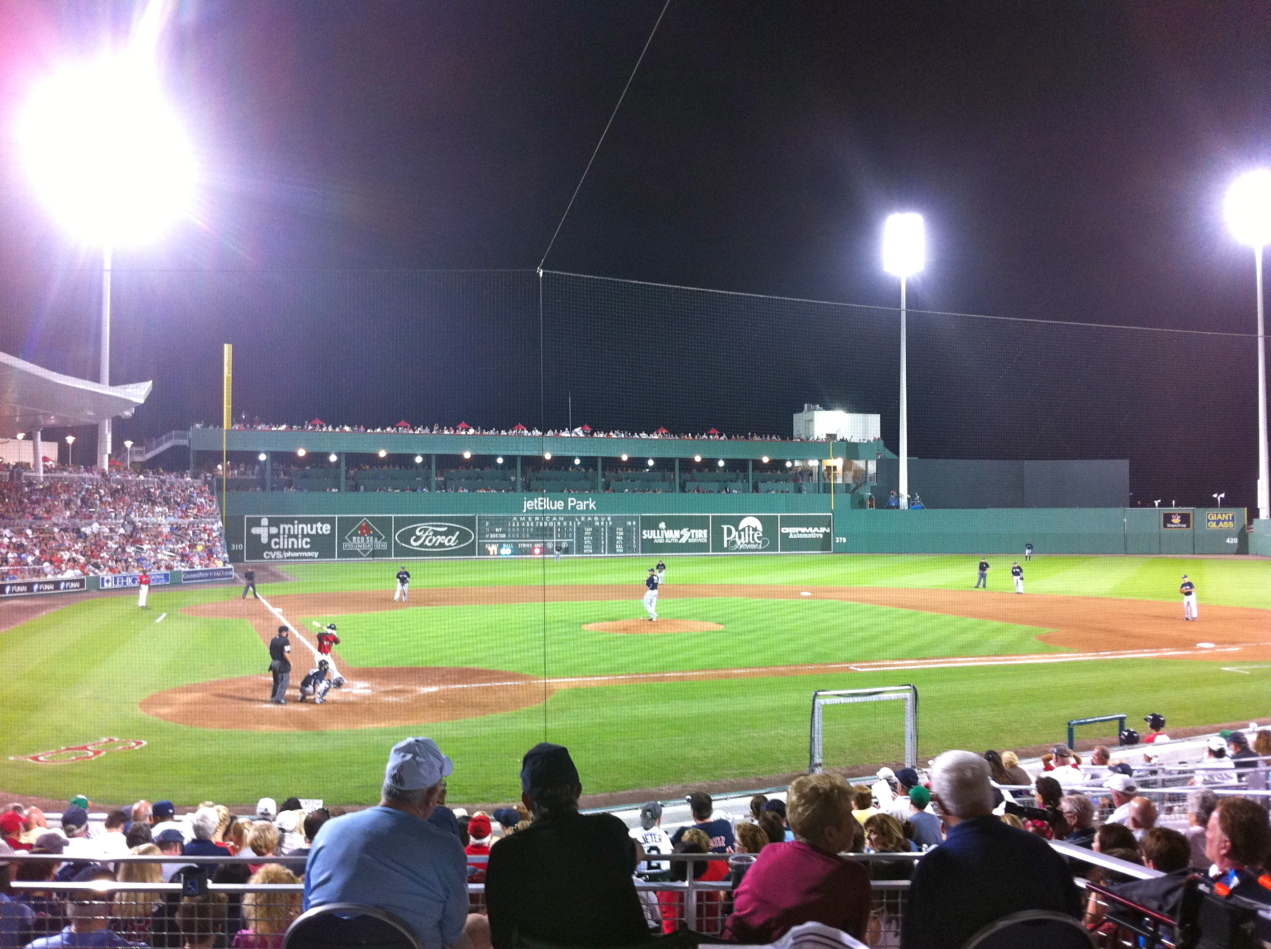 A photo of Jet Blue Park at Fenway South from a Yankees vs. Red Sox spring training game